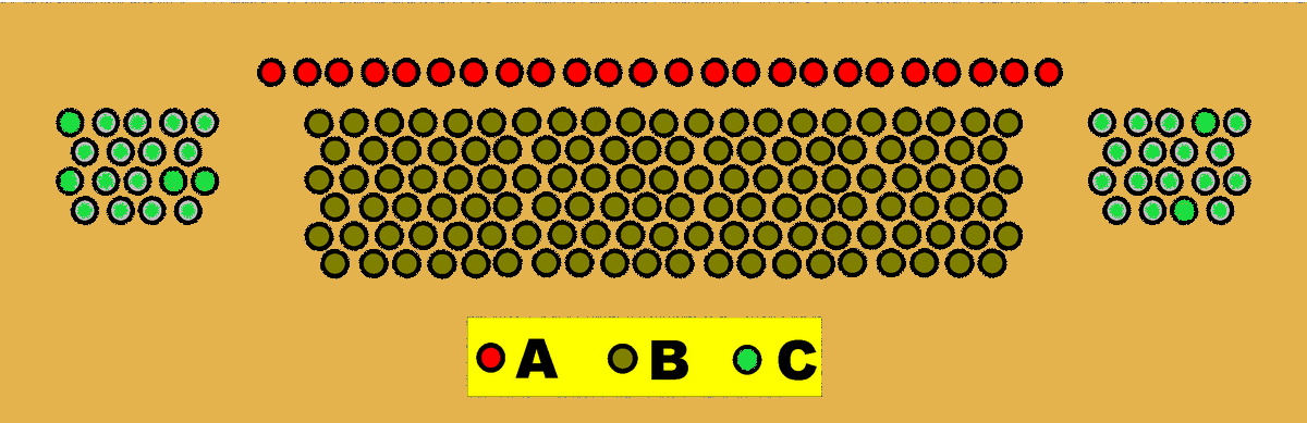 Ancient Greek phalanx formation : A) peltasts ; B) hoplites ; C) cavalry . (Was used: Milittary Enciclopedia – VIZ - Belgrade - 1971. - Part 2, page 742